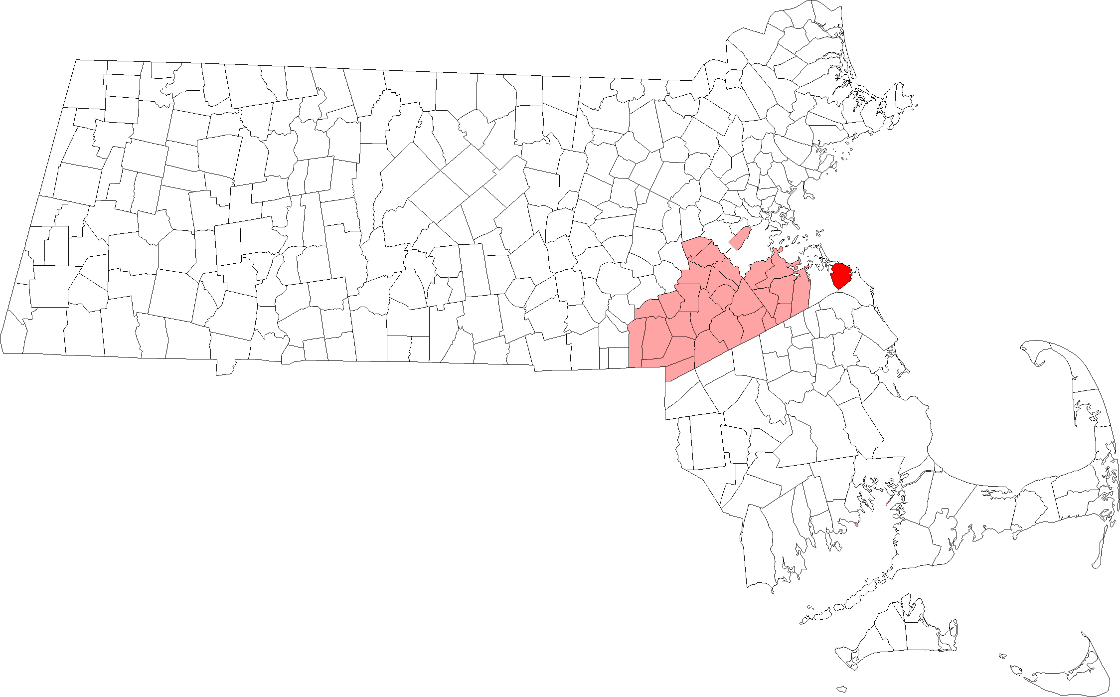 Location of Cohasset in Norfolk County, Massachusetts